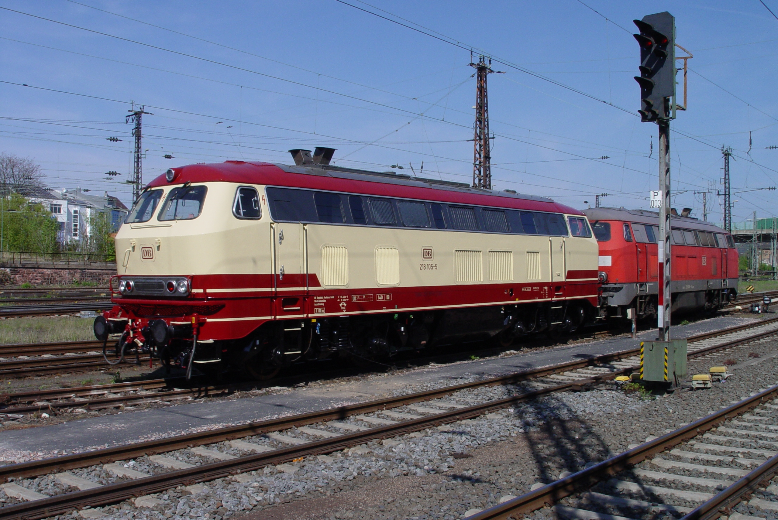 218 105-5 in new red/beige livery in Aschaffenburg